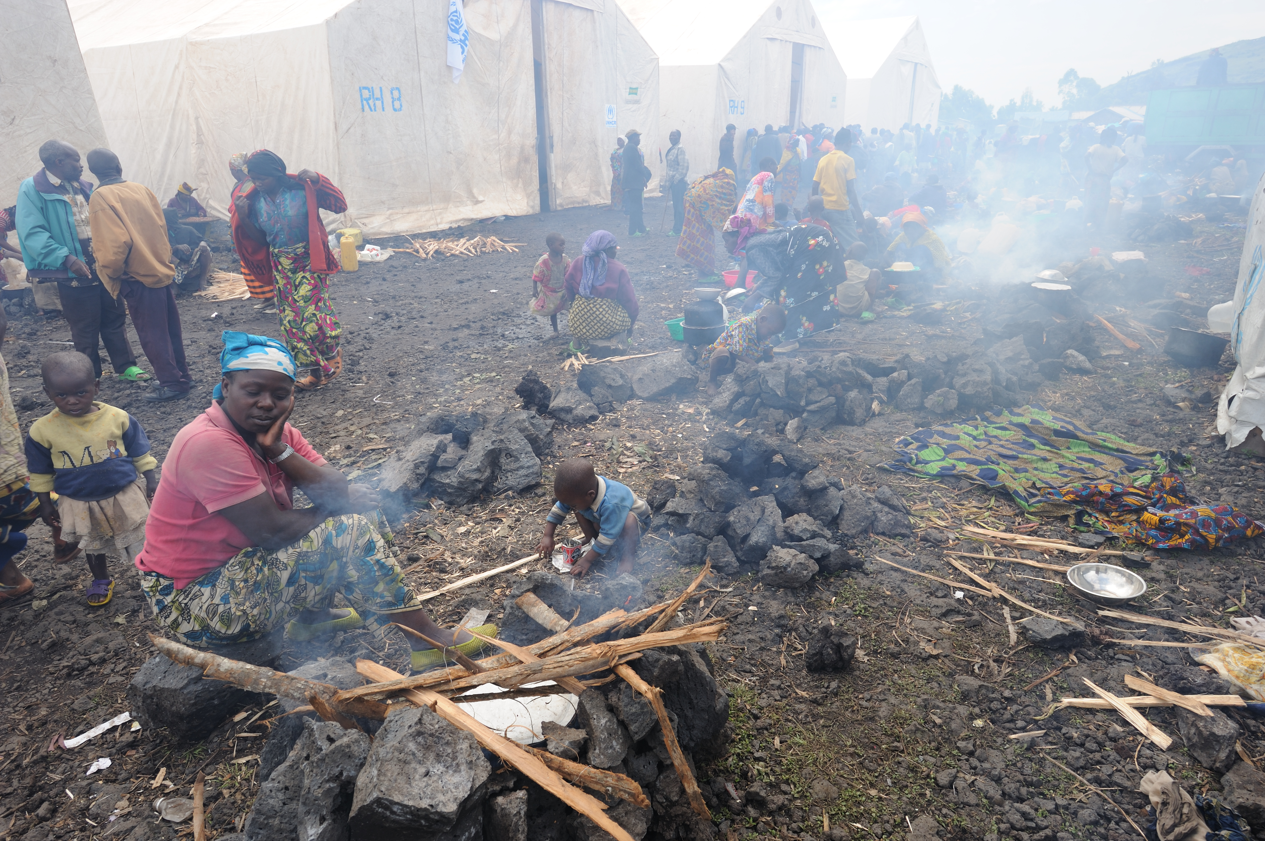 Displaced persons outside of temporary shelter in Congo. Kibati camp is between the government forces postions and the CNDP rebels, about a kilometer separates them.